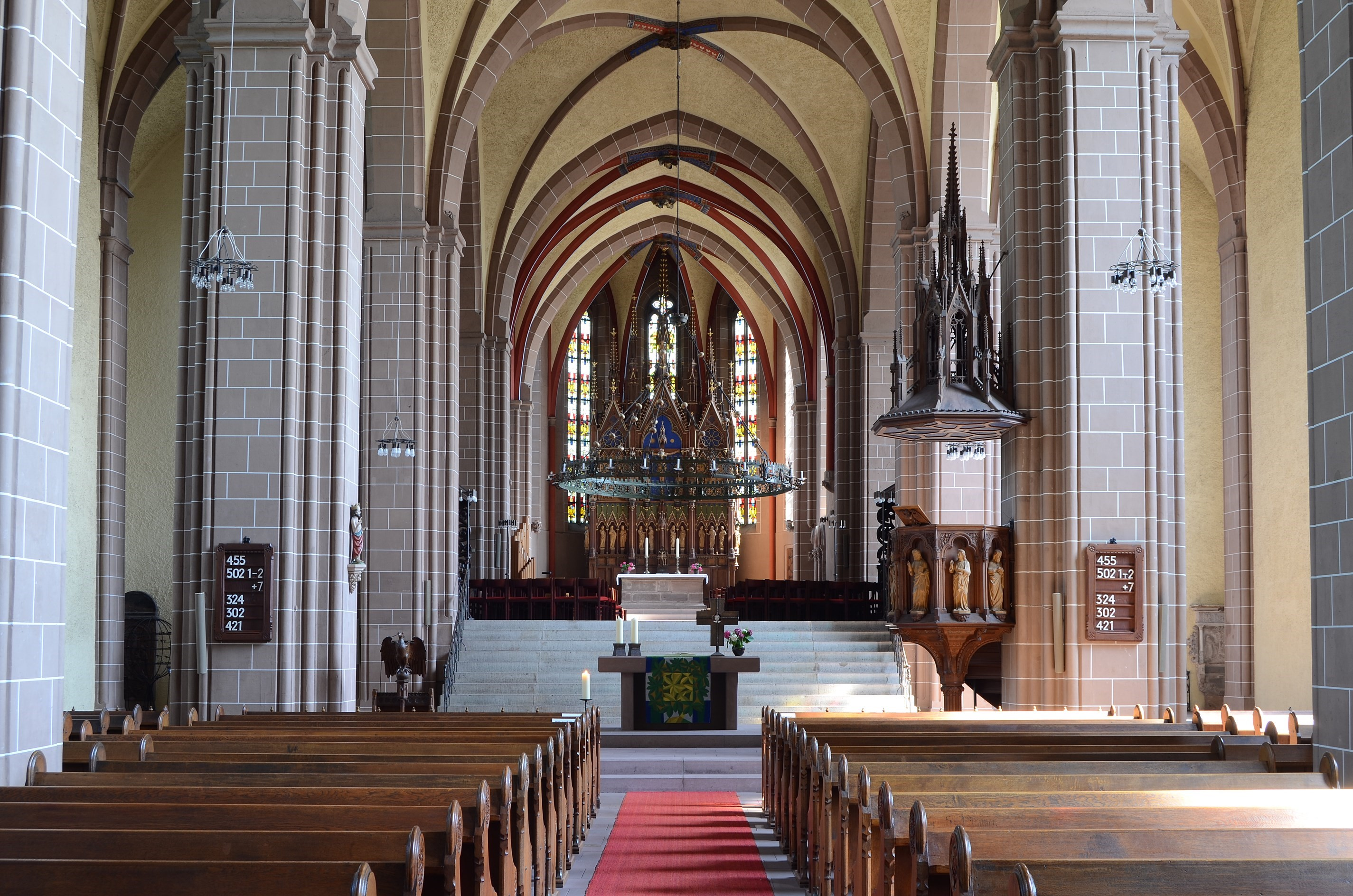 Einbeck (Lower Saxony, Germany) – Lutheran Saint Alexander Church – interior This is a photograph of an architectural monument.It is on the list of cultural monuments of Einbeck This photograph was taken with a Nikon D7000